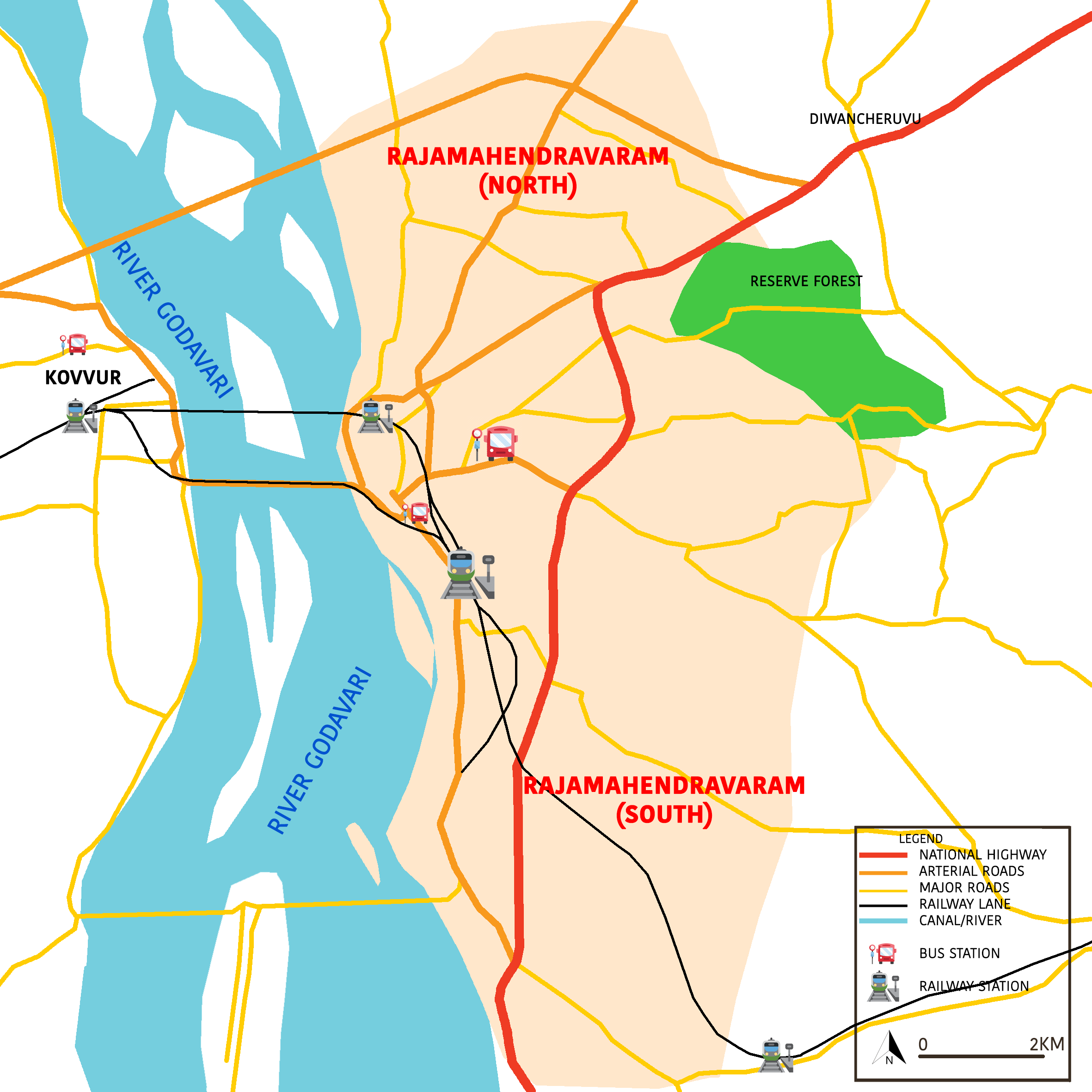 Transportation map of Rajahmundry showing Roadways & Railways